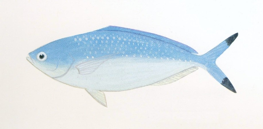 Caesio_lunaris. Tempera on paper